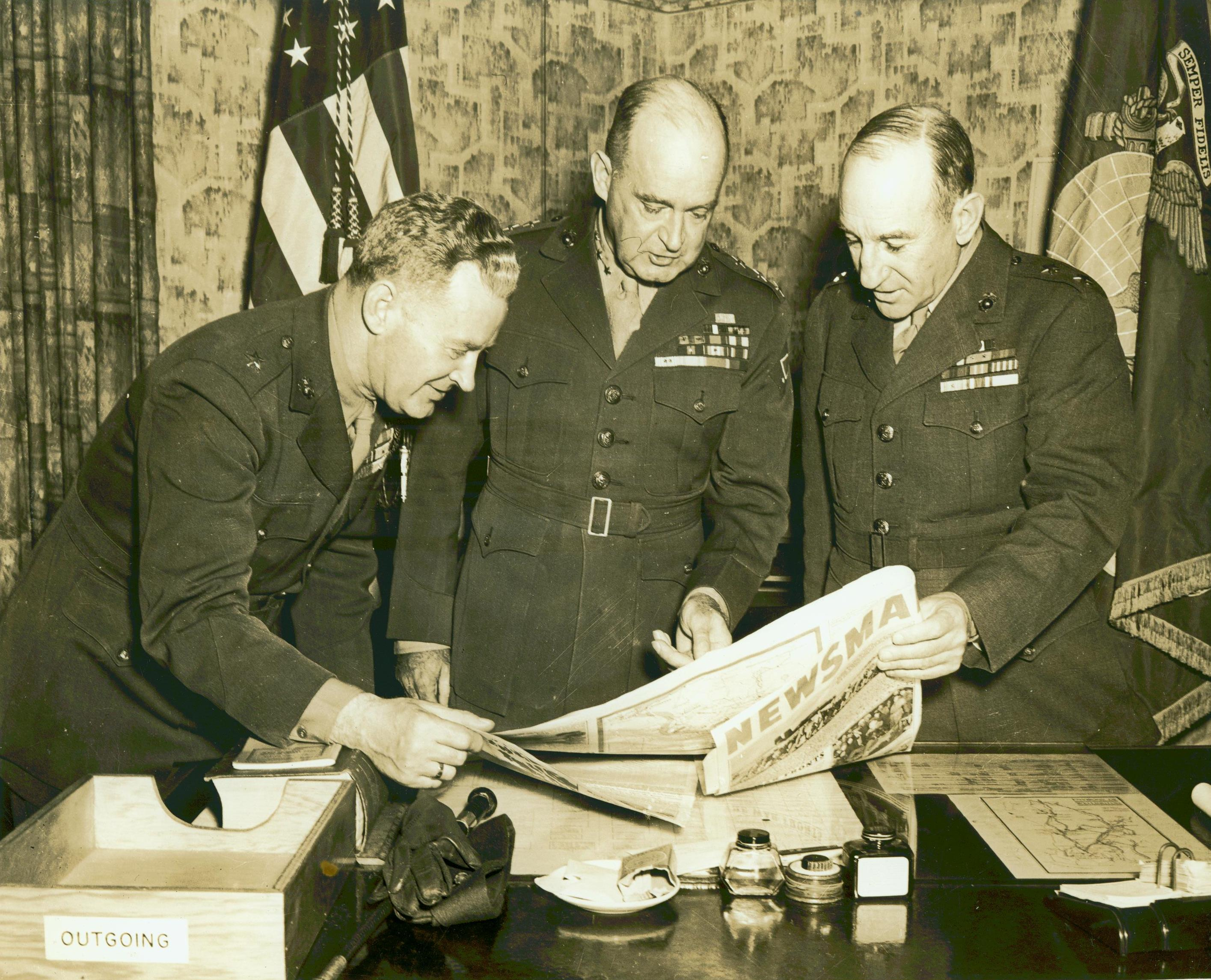 Leo Hermle, Alexander Vandegrift, and Julian Smith look at a Newsmap while the 2d Marine Division was stationed in New Zealand during World War II. From the Thomas Colley Collection (COLL/3657) at the Marine Corps Archives and Special Collections OFFICIAL USMC PHOTOGRAPH